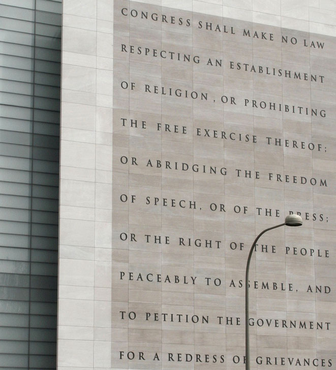 The Newseum's five freedoms guaranteed by the First Amendment to the US Constitution. Freedom of Religion Freedom of Speech Freedom of the Press Freedom to Assemble Peaceably Freedom to Petition the Government for a Redress of Grievances (Opening April 11, 2008)